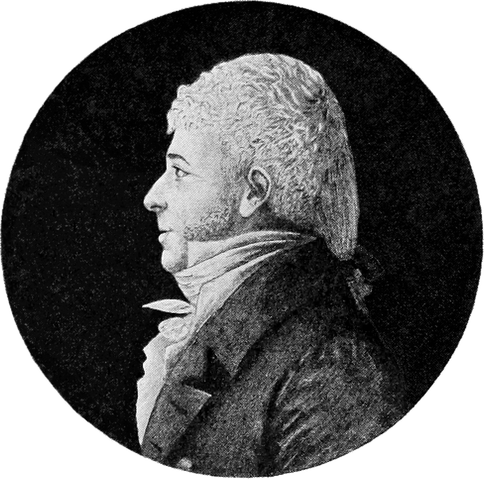 Johan Valckenaer (1759-1821) was a Dutch jurist, diplomat and politician of the Patriots movement.